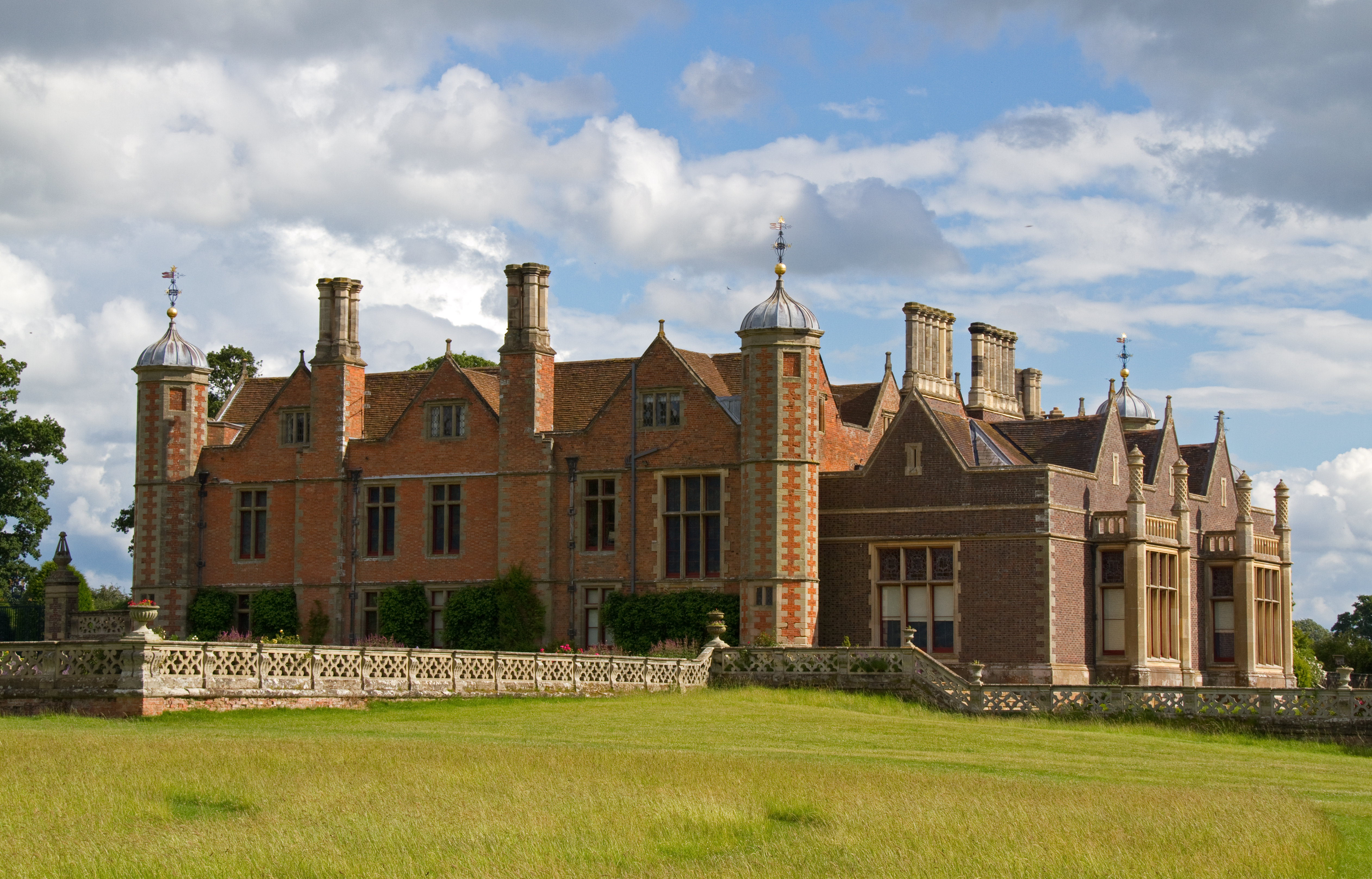 Built in 1558 and extended during the 19th Century